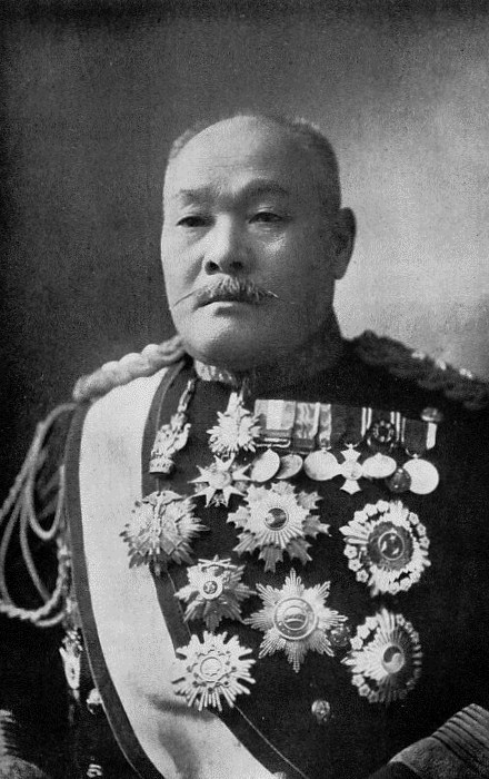 Haruno Okubo